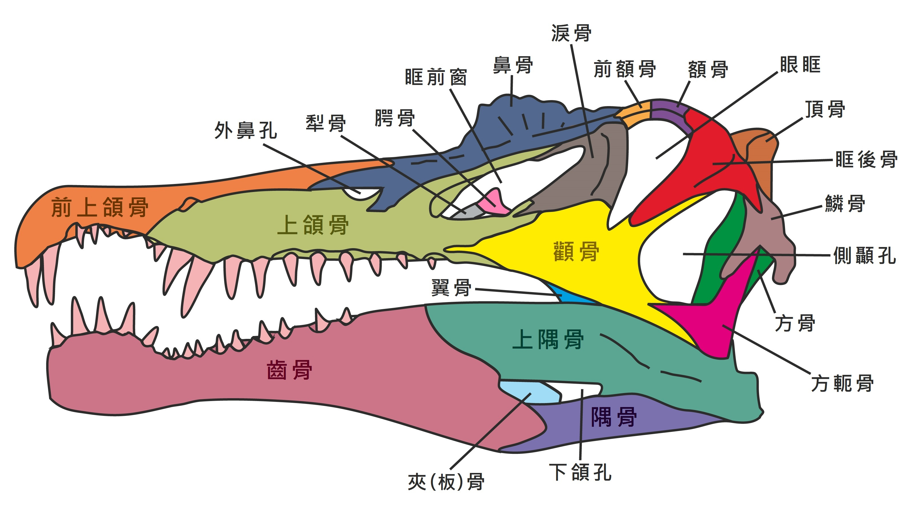 Skull diagram of Spinosaurus aegyptiacus in traditional Chinese annotation. 中文（台灣）: 埃及棘龍的頭骨構造。各部位中文名稱引自國家教育研究院雙語詞彙、學術名詞暨辭書資訊網